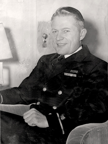 George Ray Tweed (July 2, 1902 – January 16, 1989) was a decorated radioman in the United States Navy who served during the World War II. He is most famous for evading of Japanese capture for two years and seven months after the surrendering of U.S Garrison on Guam in 1941.